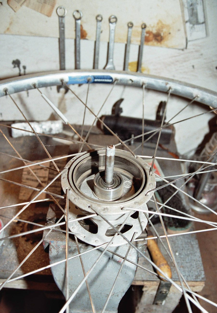 View to an opened drum brake of a bicycle